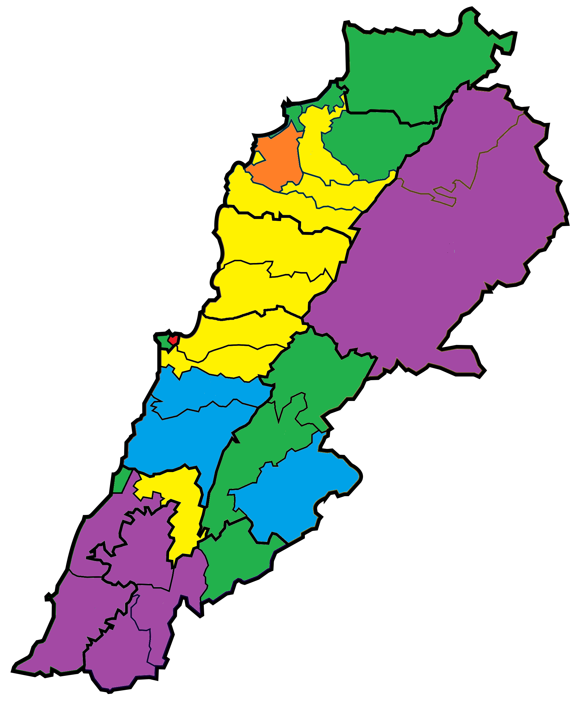 Listing the largest community in the Lebanese electorate, per qada and/or "minor district". Based on 2017 data. Created based on File:Administrative divisions of Lebanon 2017-08 (Numbered).png. Green=Sunni, Purple=Shia, Blue=Druze, Yellow=Maronite, Orange=Greek Orthodox, Red=Armenian Orthodox